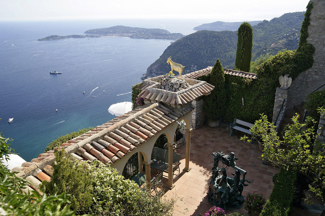 photochevredor